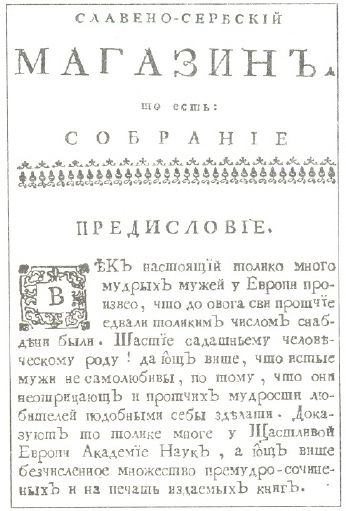 Slaveno-Serbian jurnal (Slaveno serbskij magazin).